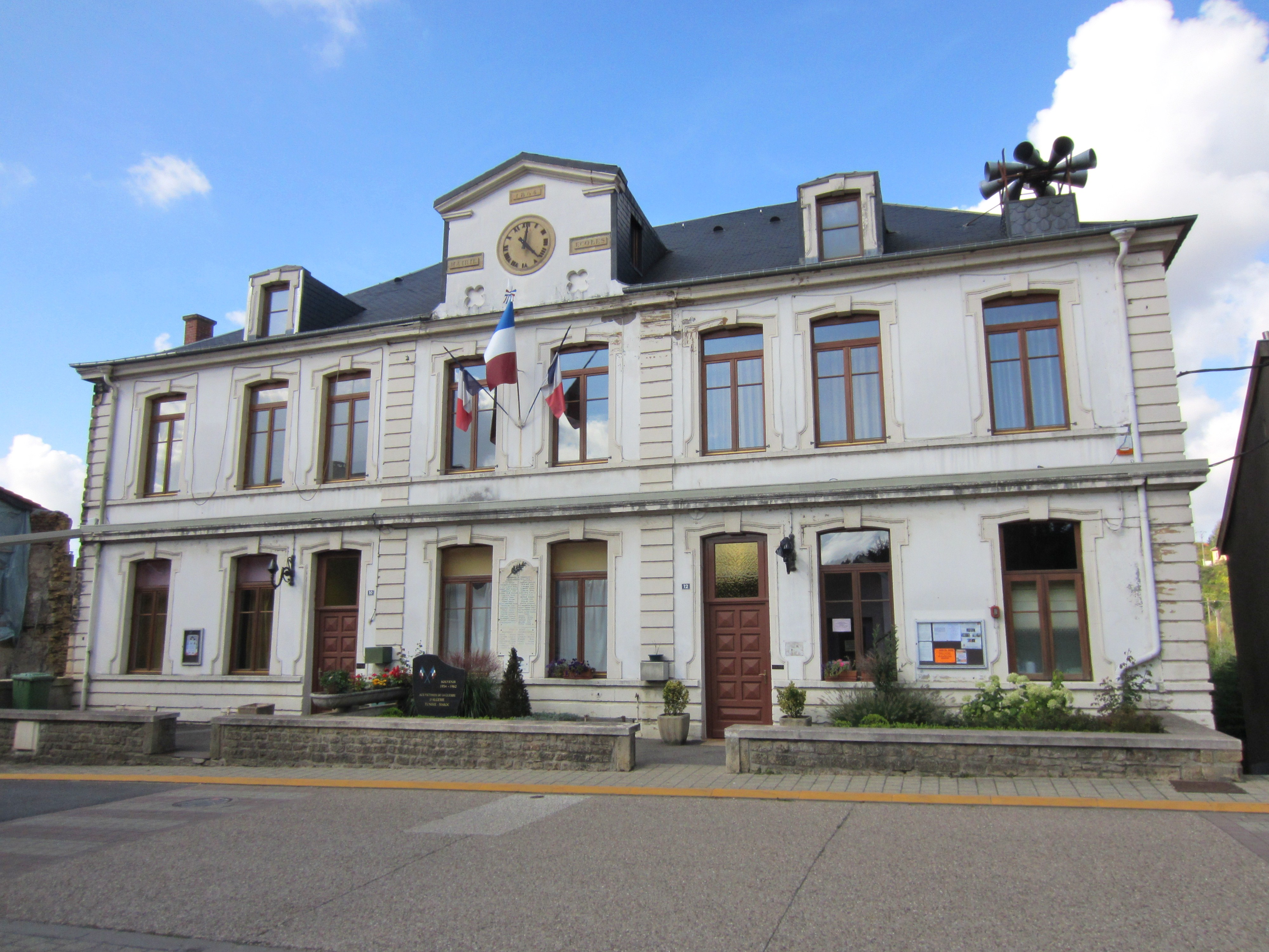 Description mairie Pierrepont 54 Date24 September 2011Sourcemon appareil photoAuthorAimelaimePermission (Reusing this file) mairie Pierrepont 54